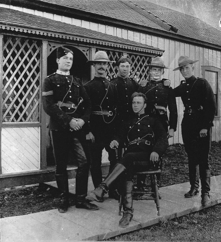 Photograph, North West Mounted Police officers group, copied 1900, Anonymous, Silver salts on paper mounted on paper, 17 x 12 cm